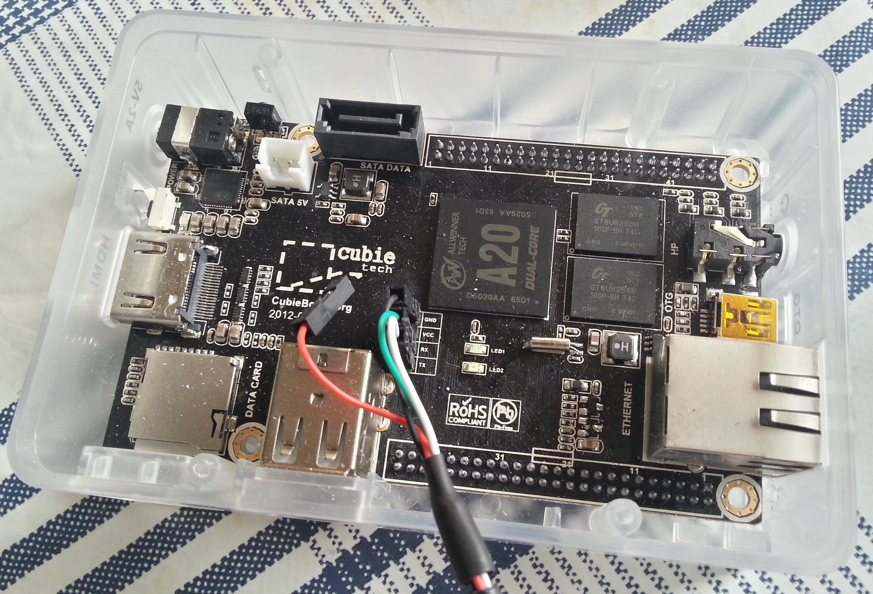 Cubieboard2 in its opened official box, view from ethernet side. The serial (or UART, or TTL) port is connected without the red/vermillon wire as recommanded to avoid to damage card. The wire allow to view and control console for human interaction or some automatisms.